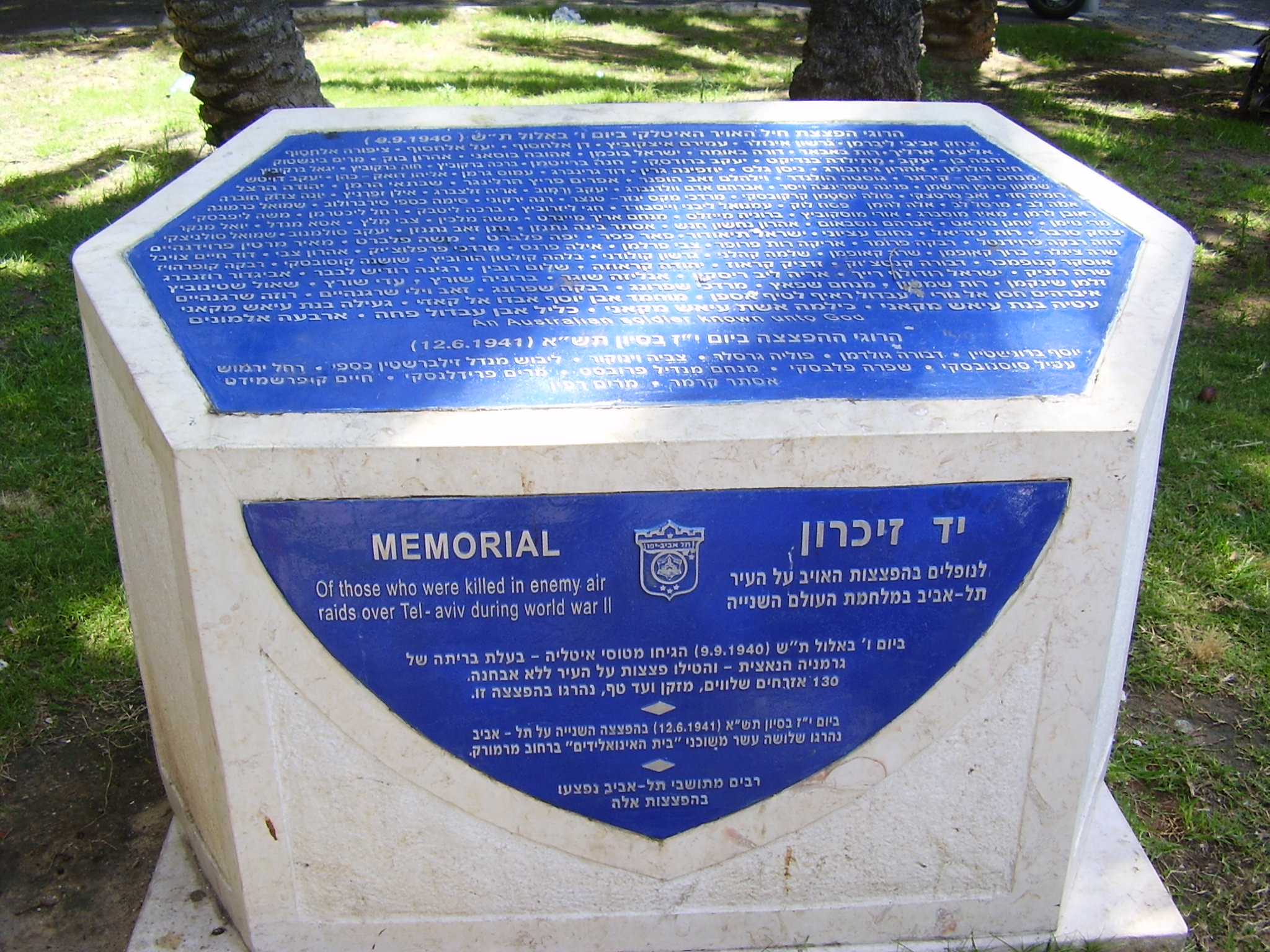 second world war memorial in tel-aviv